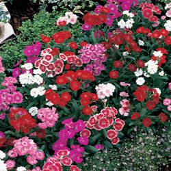 Flower